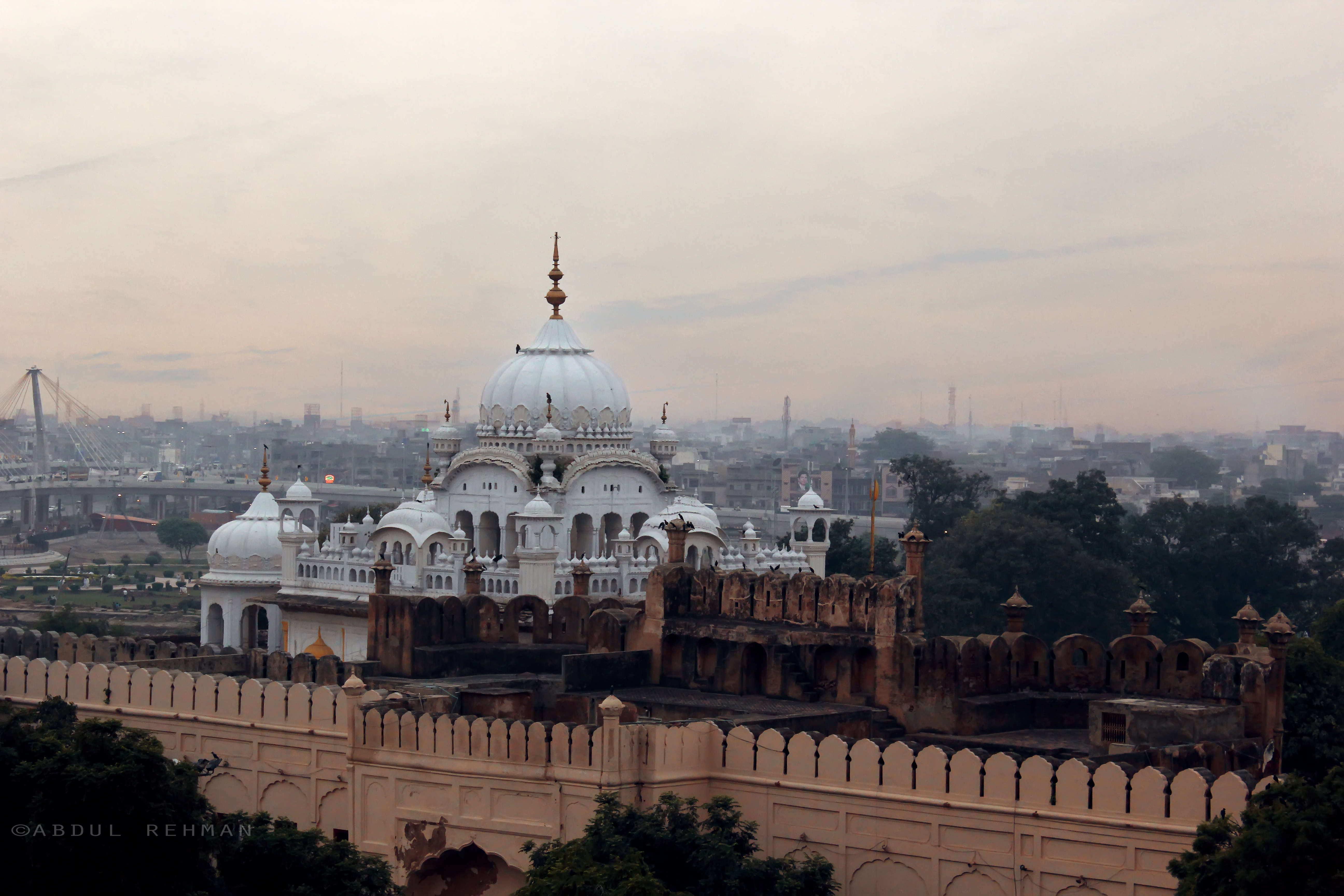 Samadhi of Ranjit Singh This is a photo of a monument in Pakistan identified as the PB-79